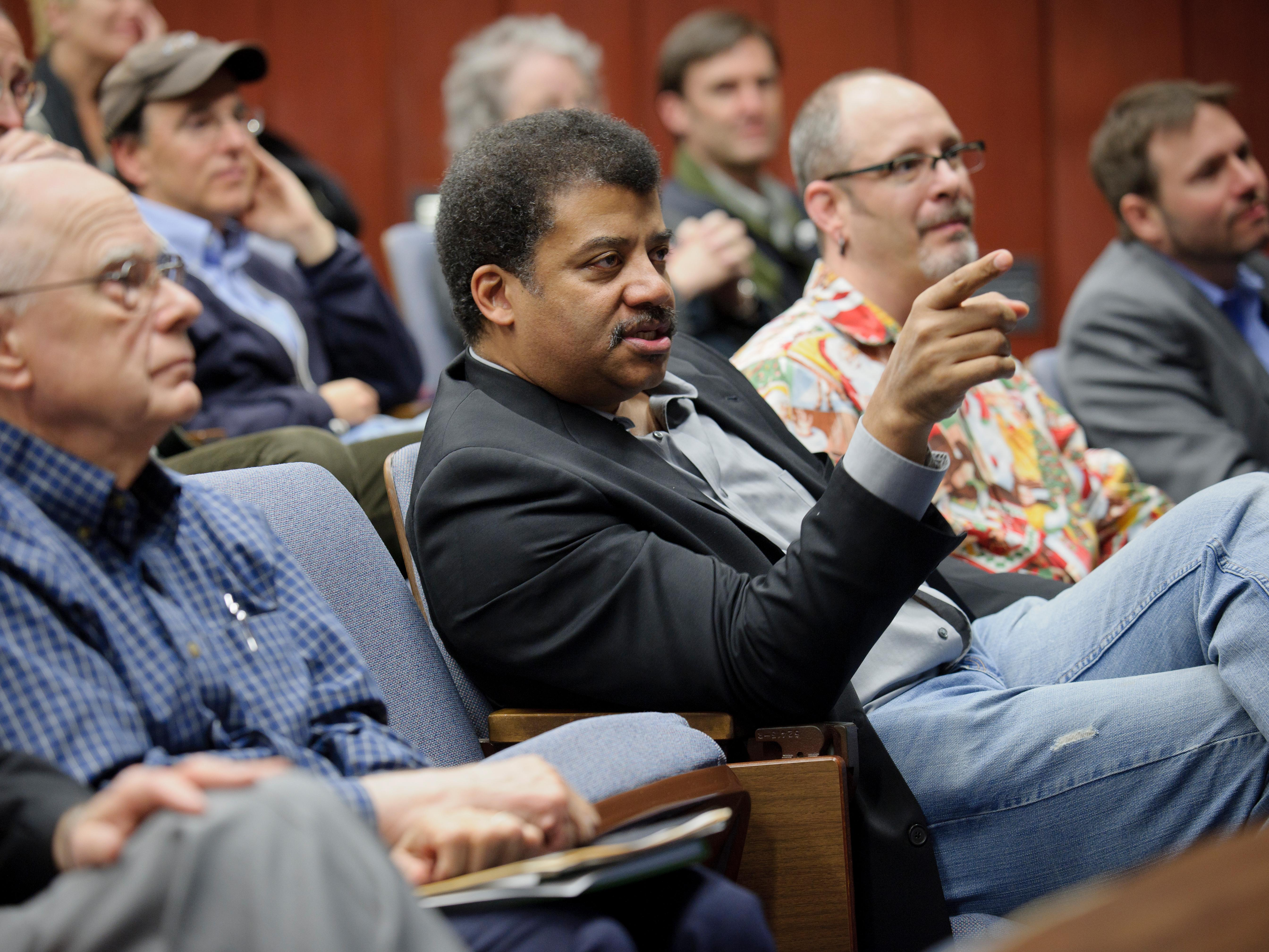 Neil deGrasse Tyson at the 1,000 days since launch party for Kepler.